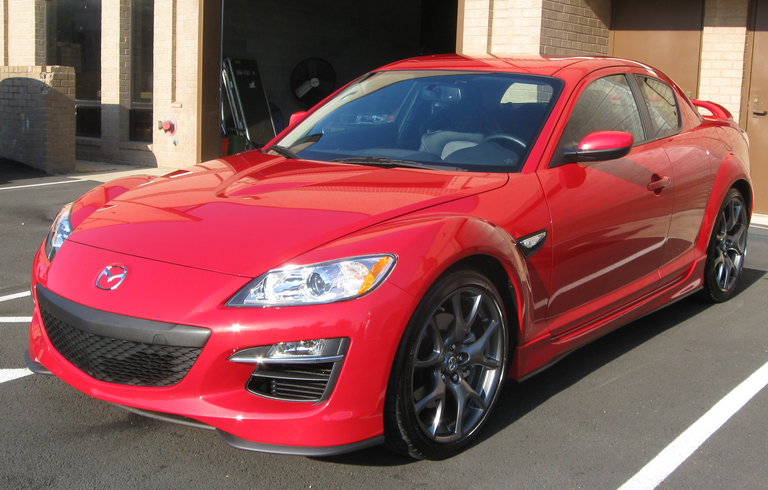 2010 Mazda RX-8 photographed in Chantilly, Virginia, USA.